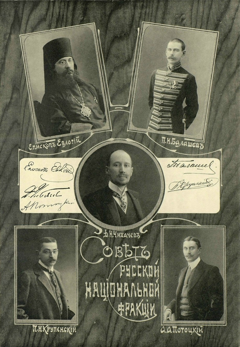 State Duma of the Russian Empire. Third convocation. Council of Russian National Faction.